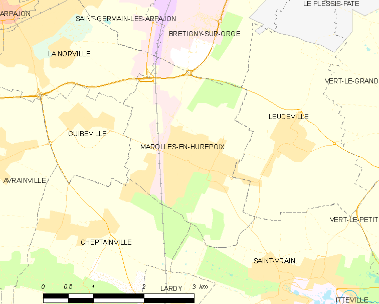 Map of French municipality Marolles-en-Hurepoix